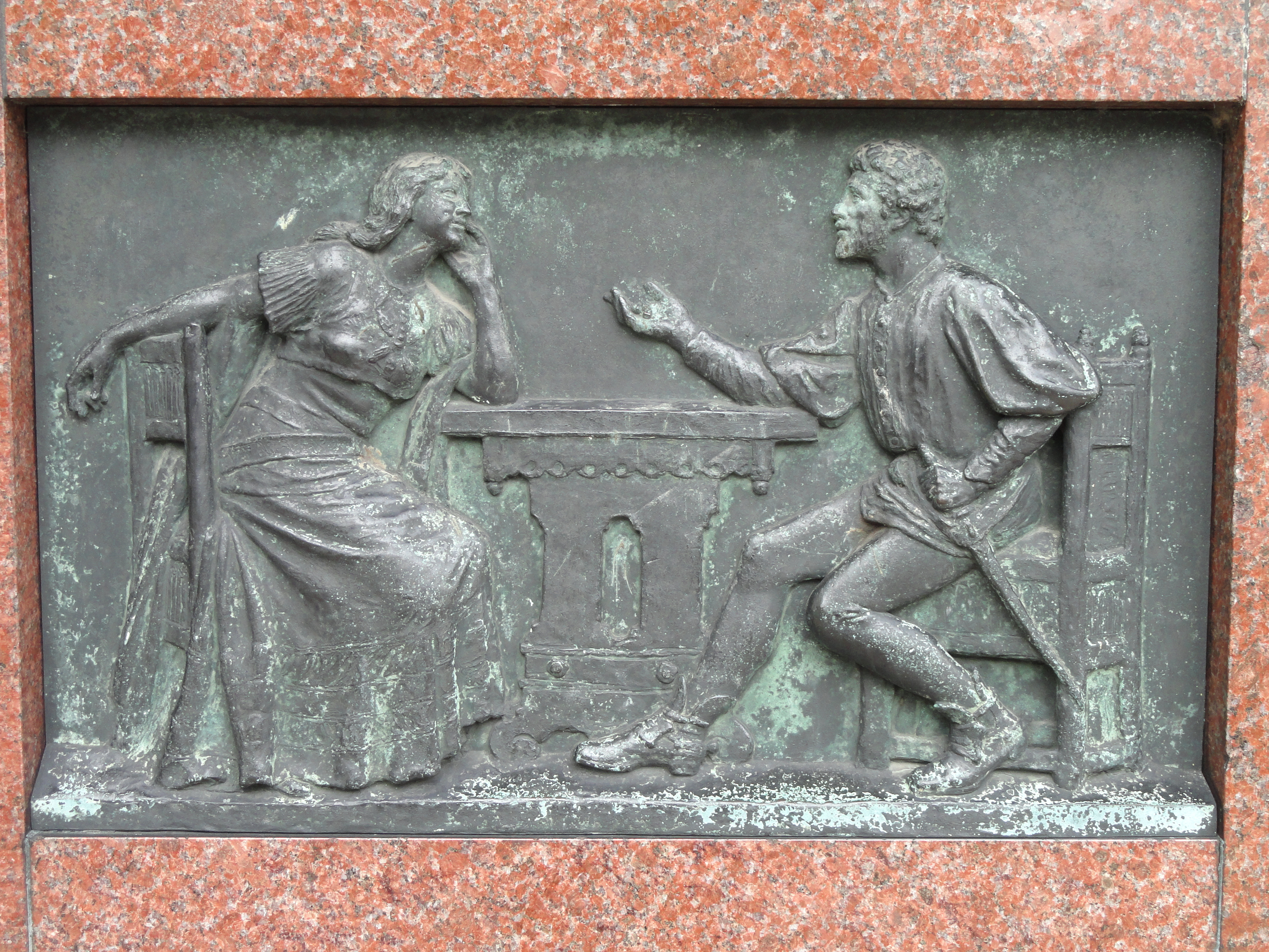 Statue of J.P.E. Hartmann by August Saabye, Copenhagen, Denmark. This sculpture is in the public domain because the sculptor died more than 70 years ago.